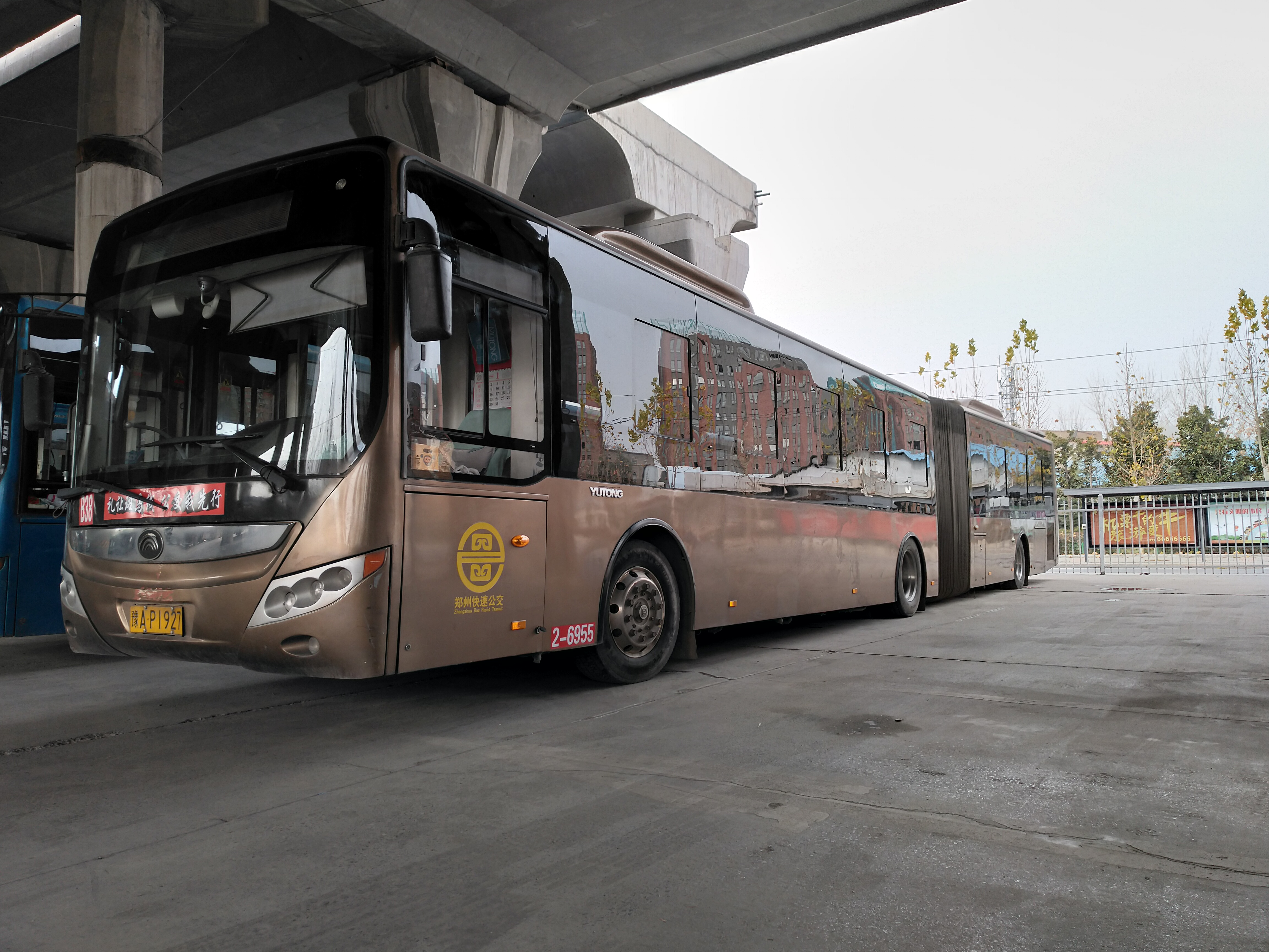 Zhengzhou's only 18-meter articulated bus in brown, running on Route B38, which was retired at the end of 2018.